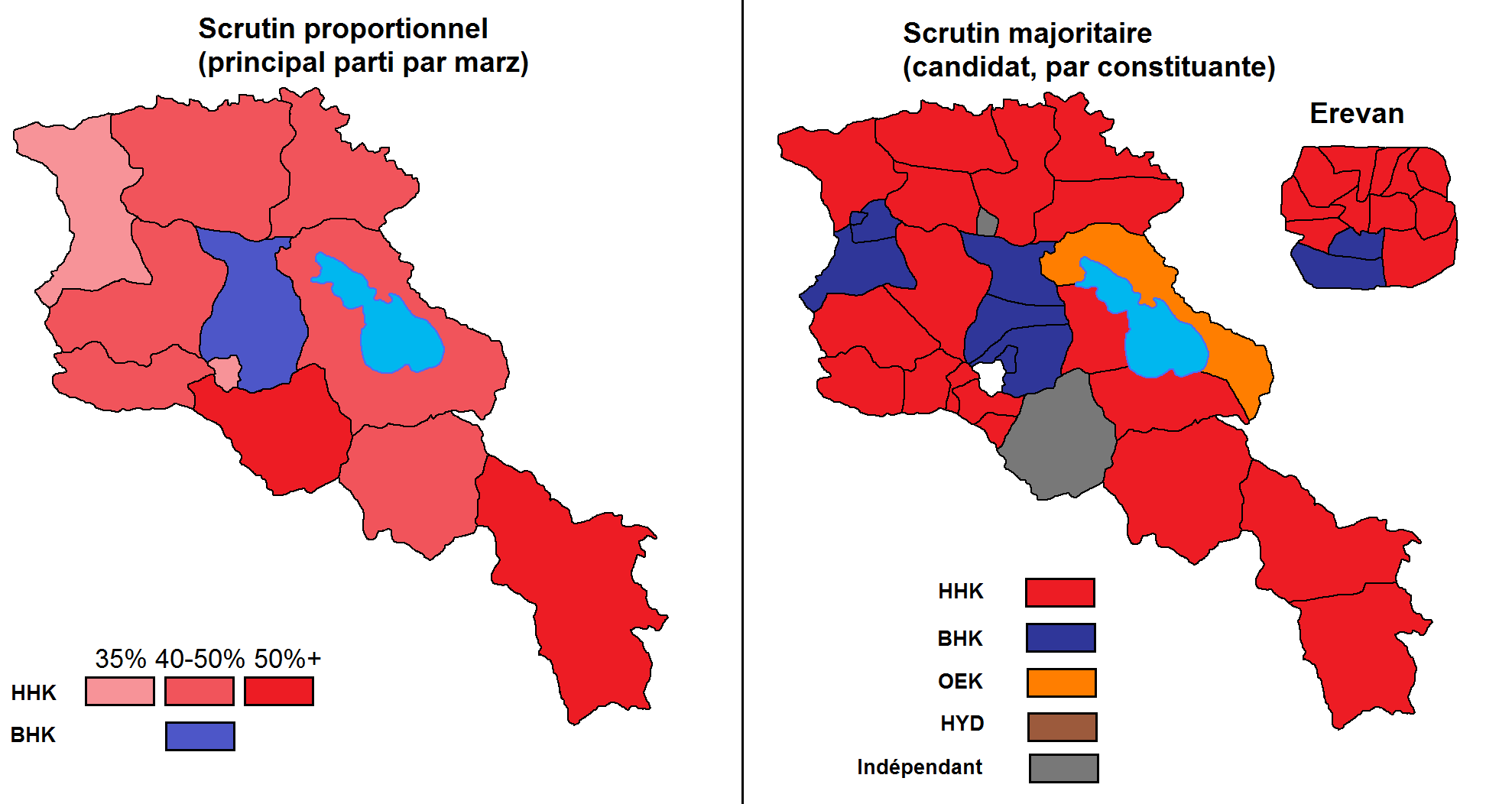 The results of 2012 Armenian parliamentary election by electoral districts.